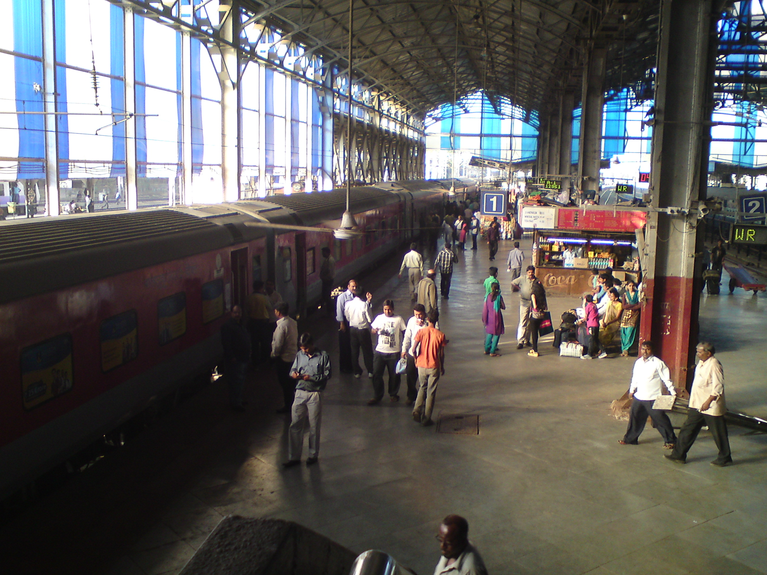 Mumbai Rajdhani at Mumbai central